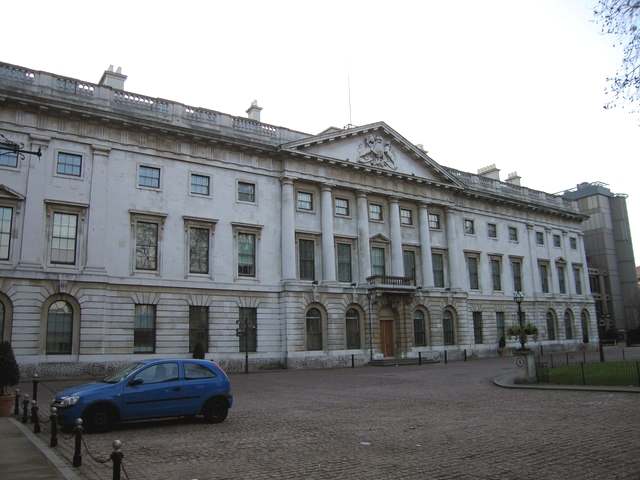 The old Royal Mint building Royal Mint Court, opposite the Tower of London.